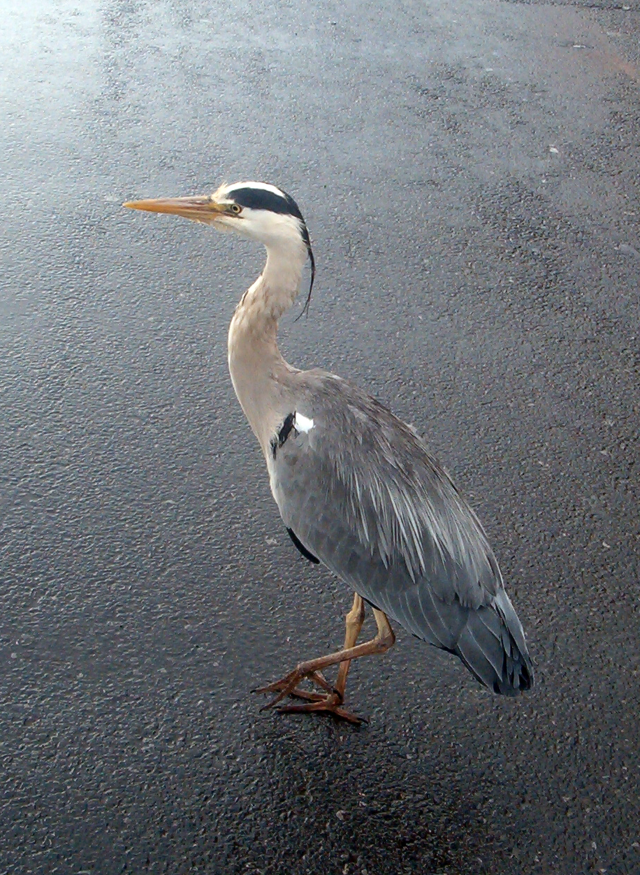 Grey Heron Ardea cinerea on the Long Walk street of the Galway harbour (Ireland).